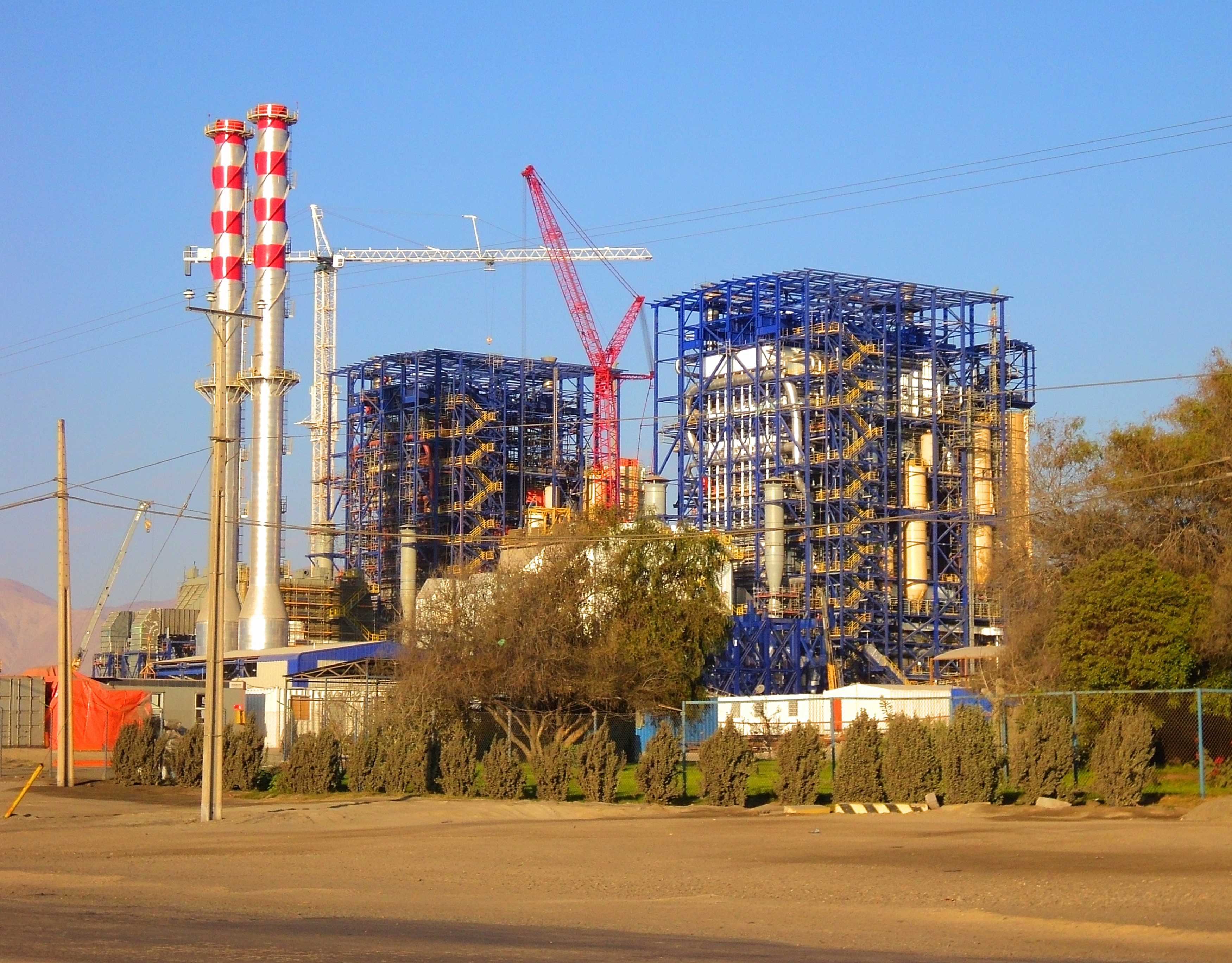 Cobra:thermal power plant in Mejillones, Chile.